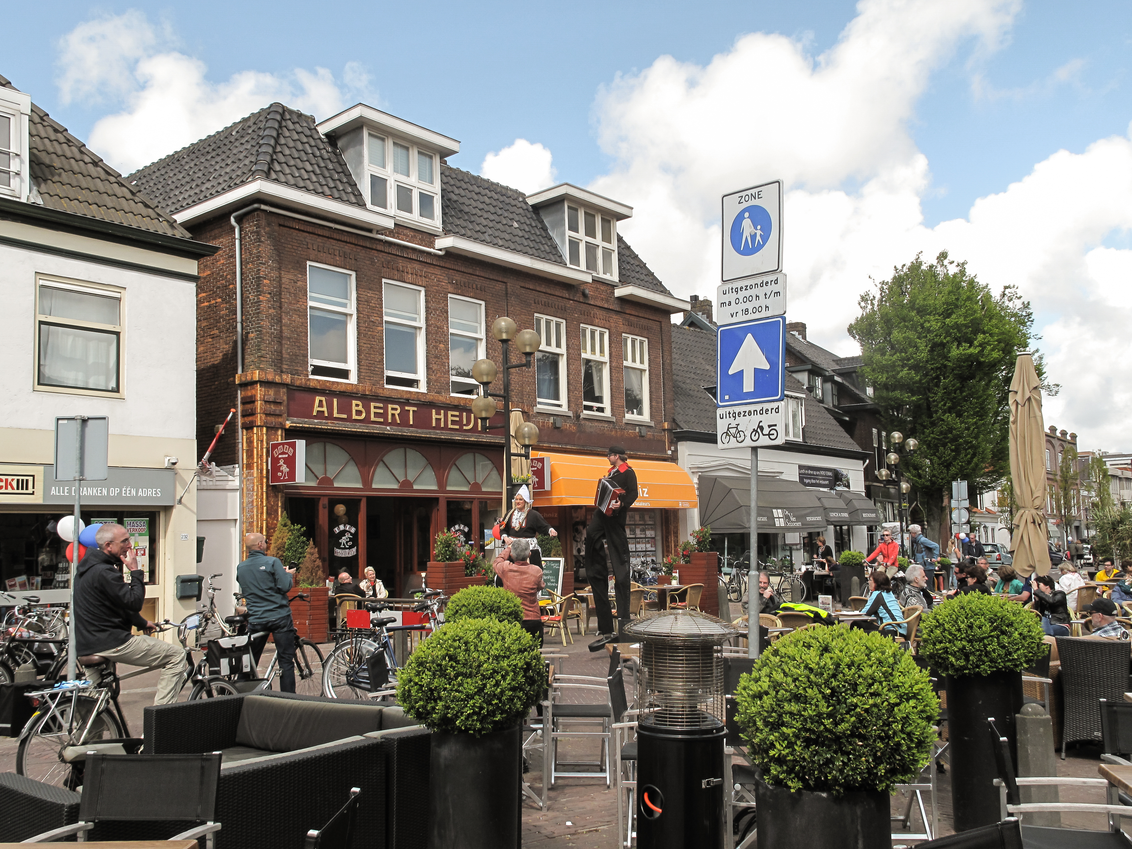 Lisse, view to a street: de Heereweg